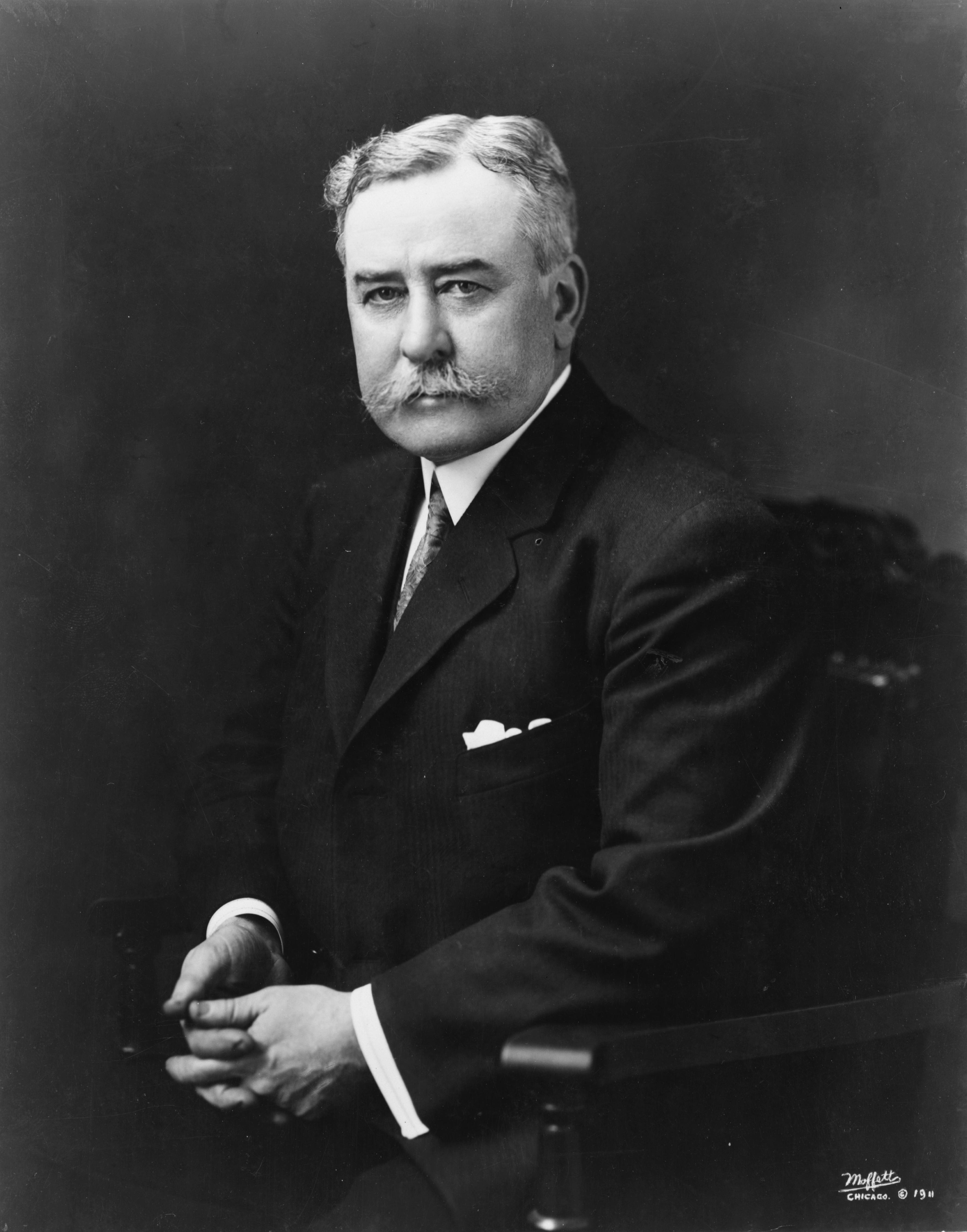 Carter Harrison, Mayor of Chicago for two terms: 1897–1905 and 1911–1915